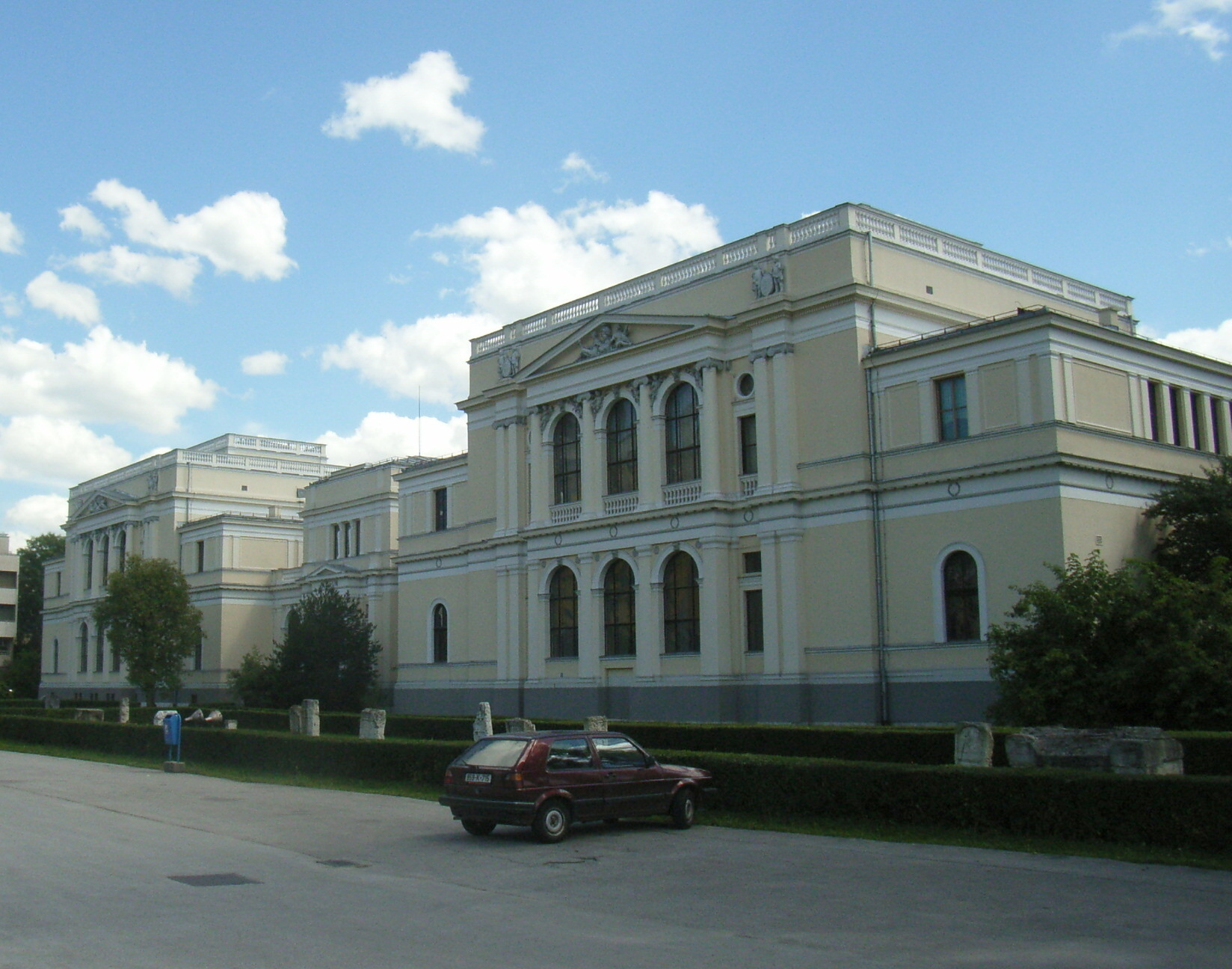 National Museum of Bosnia and_Hercegovina in Sarajevo